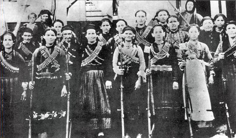 Armed group of Epirot women, in Gjirokaster. August 1914.